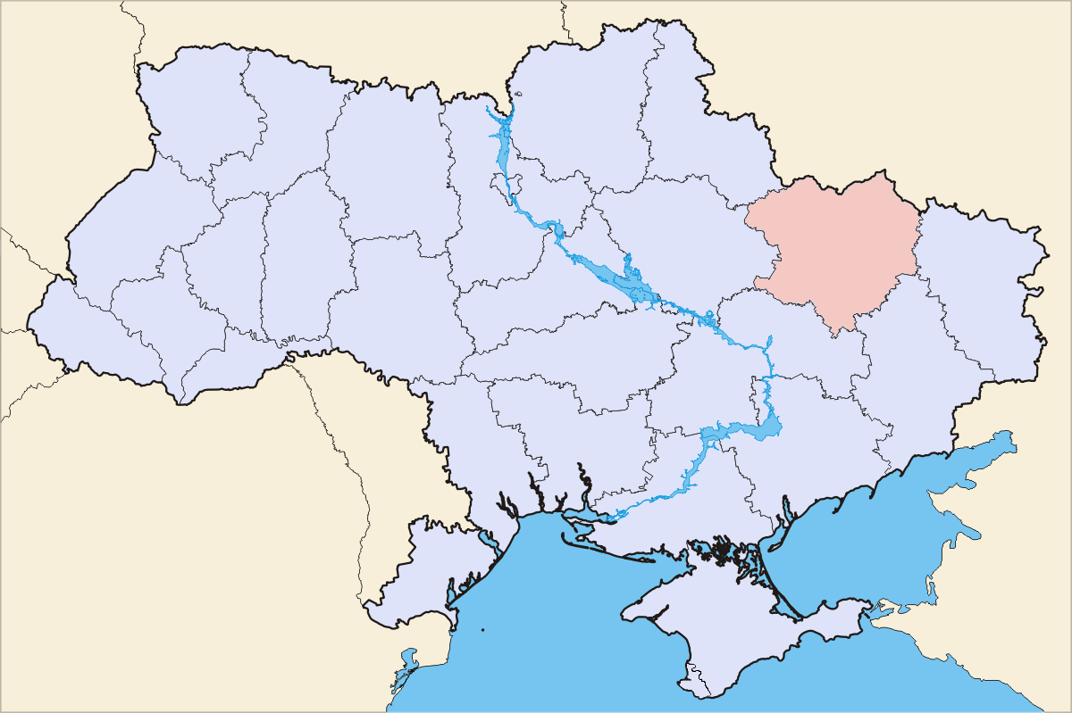 Political map of Ukraine highlighting Kharkiv Oblast